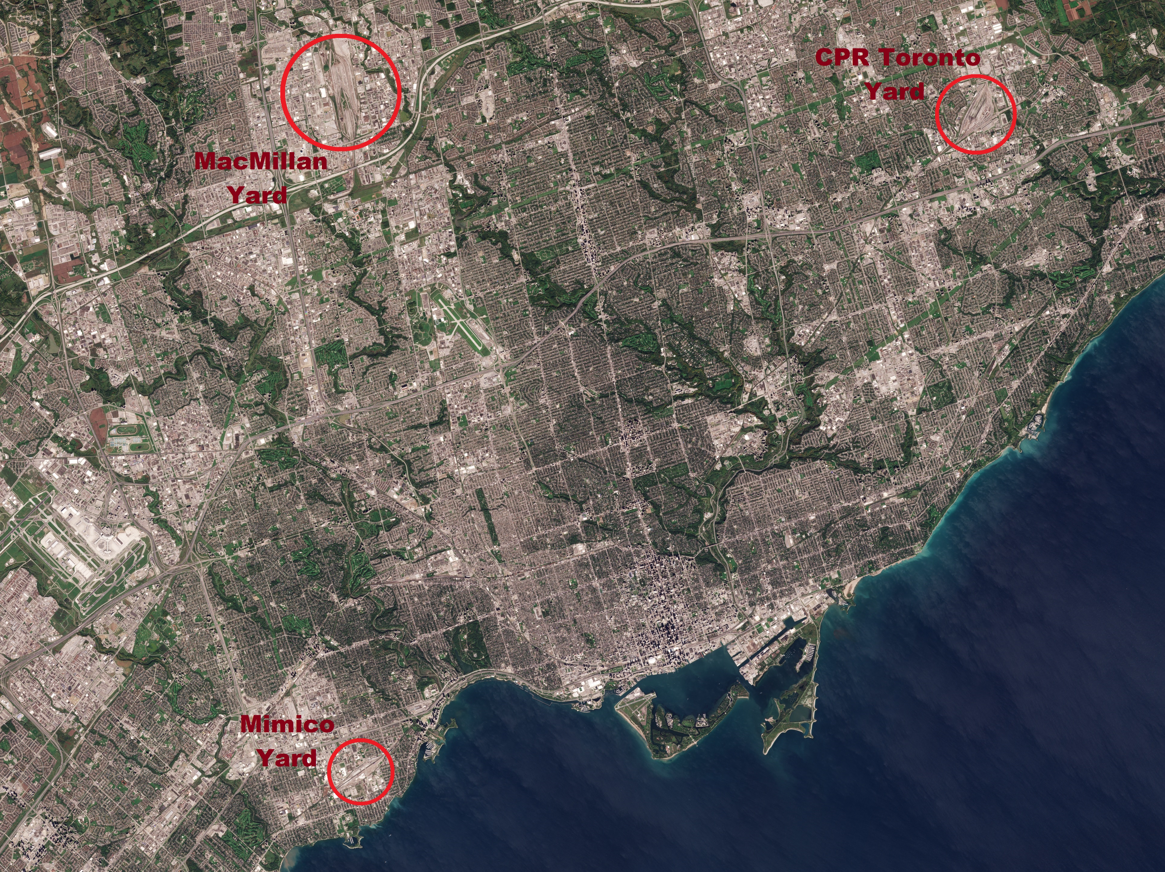 A satellite image of a portion of the Greater Toronto Area centred on Downtown Toronto and the Toronto Islands, marked are the rail yards Mimico Yard (CN), MacMillan Yard (CN) and CPR Toronto Yard (CPR) Date: 2018-10-04 Sensor: MSI on Sentinel-2A Resolution: 10m RGB Composites: True color, Band 4-3-2